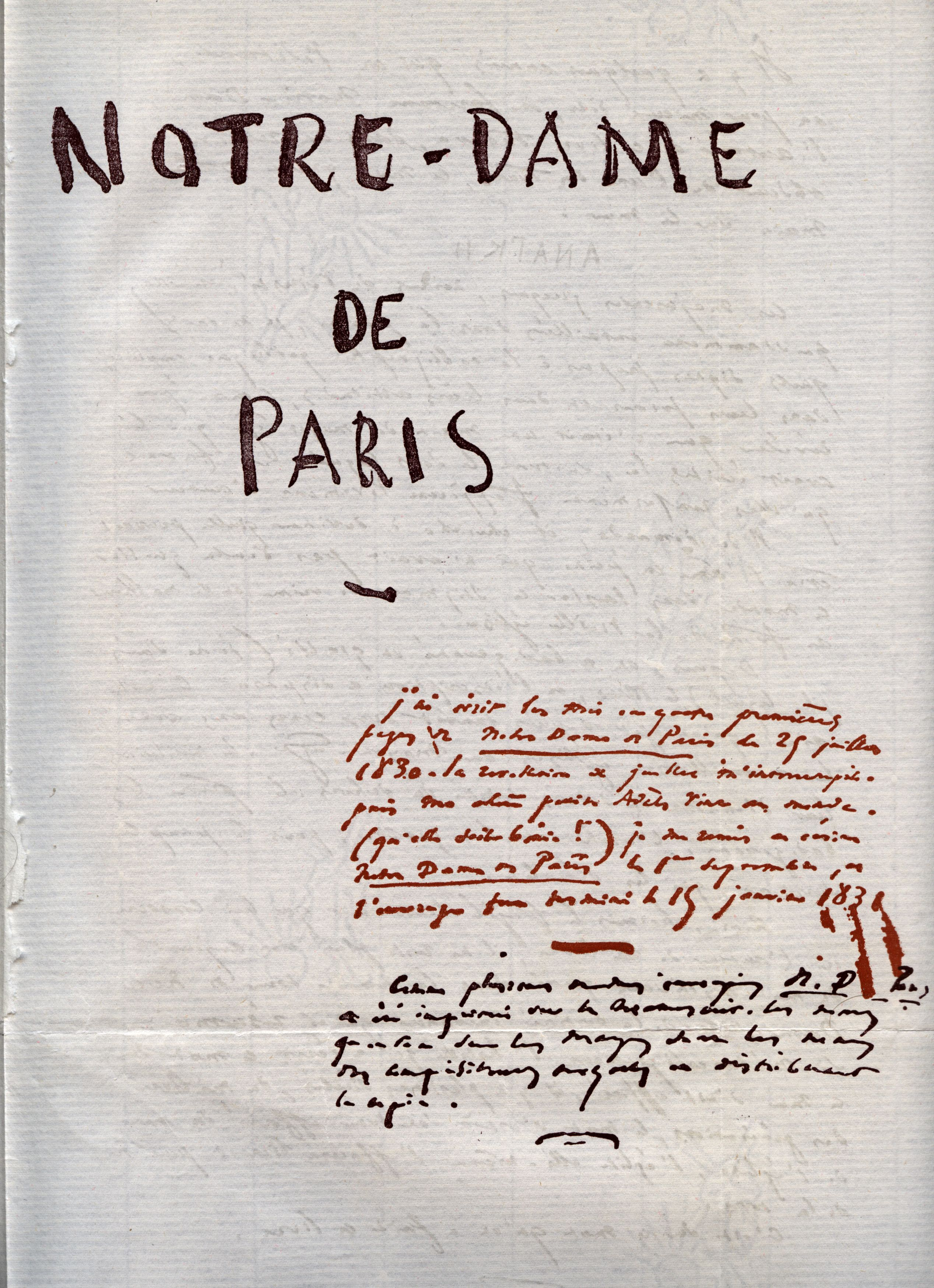 First page of the manuscript of Notre-Dame de Paris of Victor Hugo. Copy from Encyclopédie Autodidactique Quillet, Tome 3, 1960. Original in the Bibliothèque Nationale.